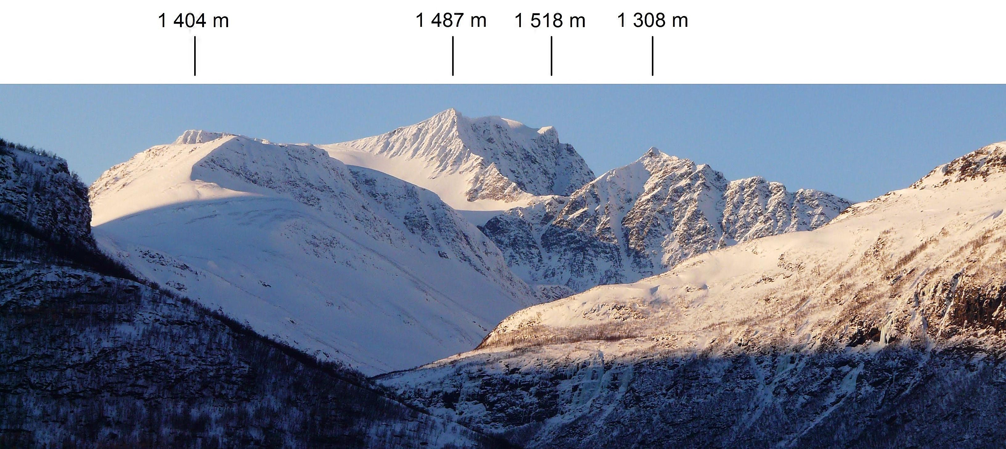 Langdalstindane (Guhkesgáisi) summits as seen from the opposite coast of Storfjorden in 2009 February. The highest summit (1,580 m) is not visible in the picture as it rests a little further behind the higher rising area between the 1,487 m and 1,518 m summits.